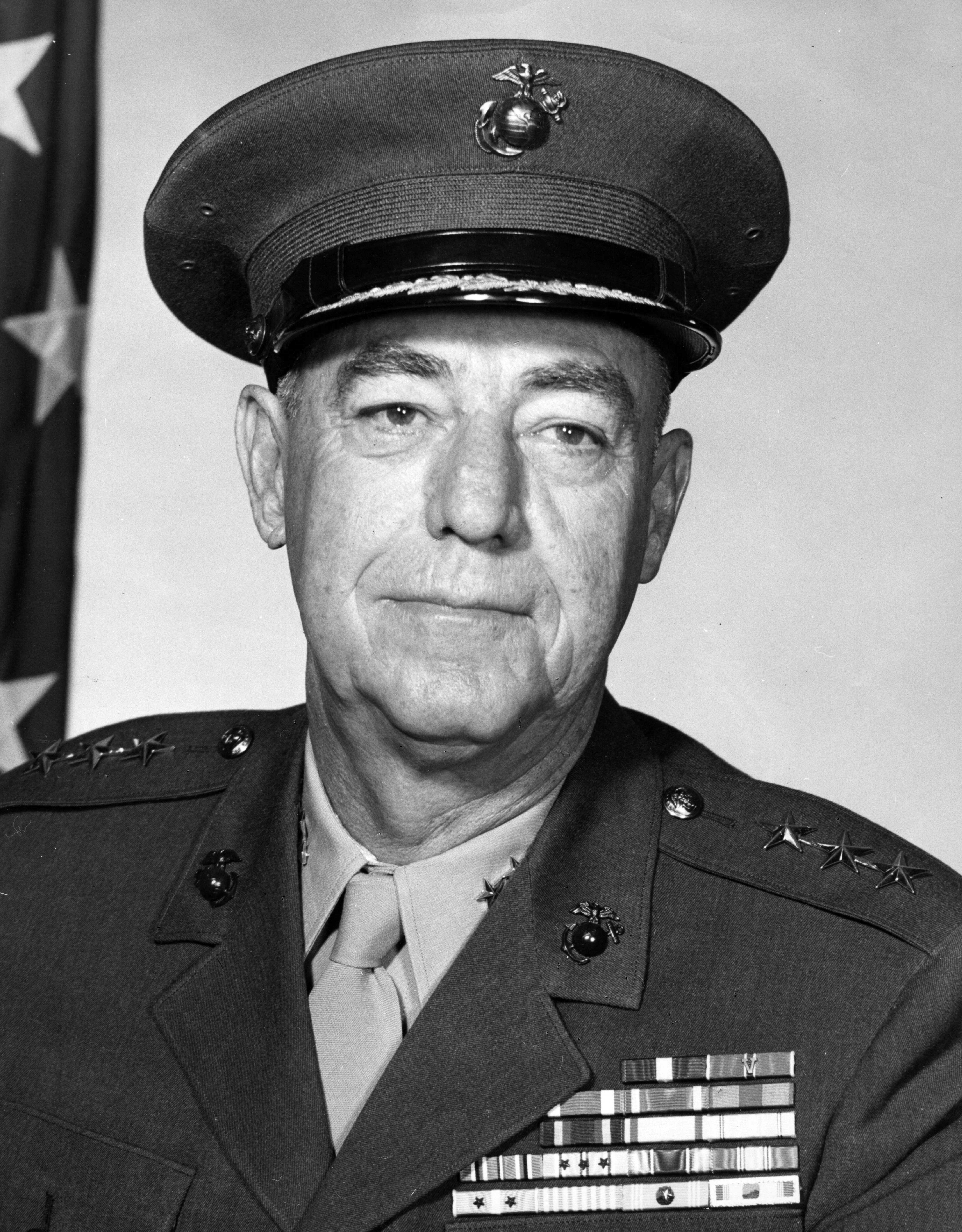 Joseph Charles Burger (May 11, 1902 – February 1, 1982) was a decorated United States Marine Corps officer and college athlete. He rose to the rank of Lieutenant General and concluded his career as Commanding general of the Fleet Marine Force, Atlantic. Burger is also known for his service as the Commanding general of Marine Corps Recruit Depot, Parris Island during the Ribbon Creek incident in April 1956.